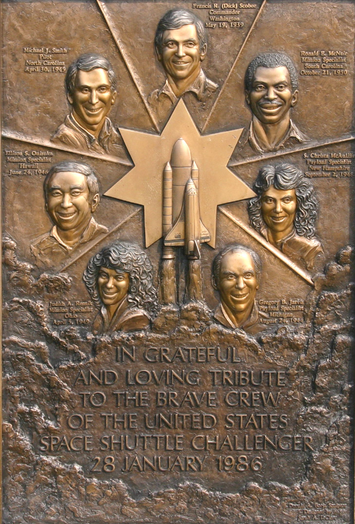 Memorial plaque of The Space Shuttle Challenger Memorial in Arlington National Cemetery